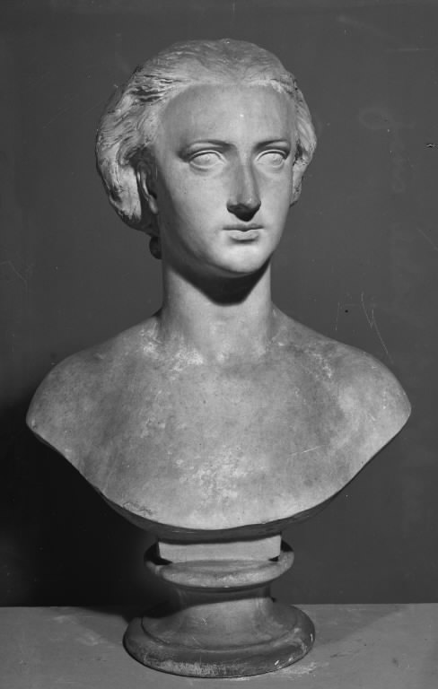 J.A. Jerichau (1816-1883), Prinsesse Alexandra af Wales, 1863